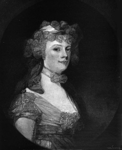 Portrait of Ann Penn Allen Greenleaf. By Gilbert Stuart in 1795.